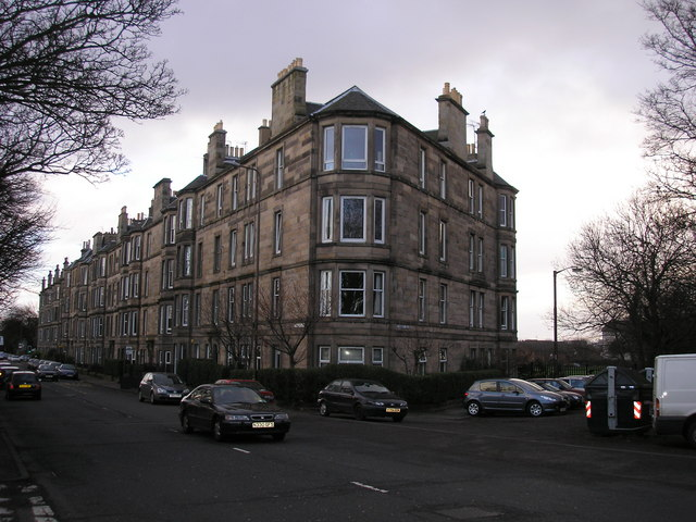 Ferry Road The view of a block of tenement buildings in Ferry Road. The section on Ferry Road in which these buildings are located is named Chancelot Terrace. The properties to the right look on to Chancelot Crescent.